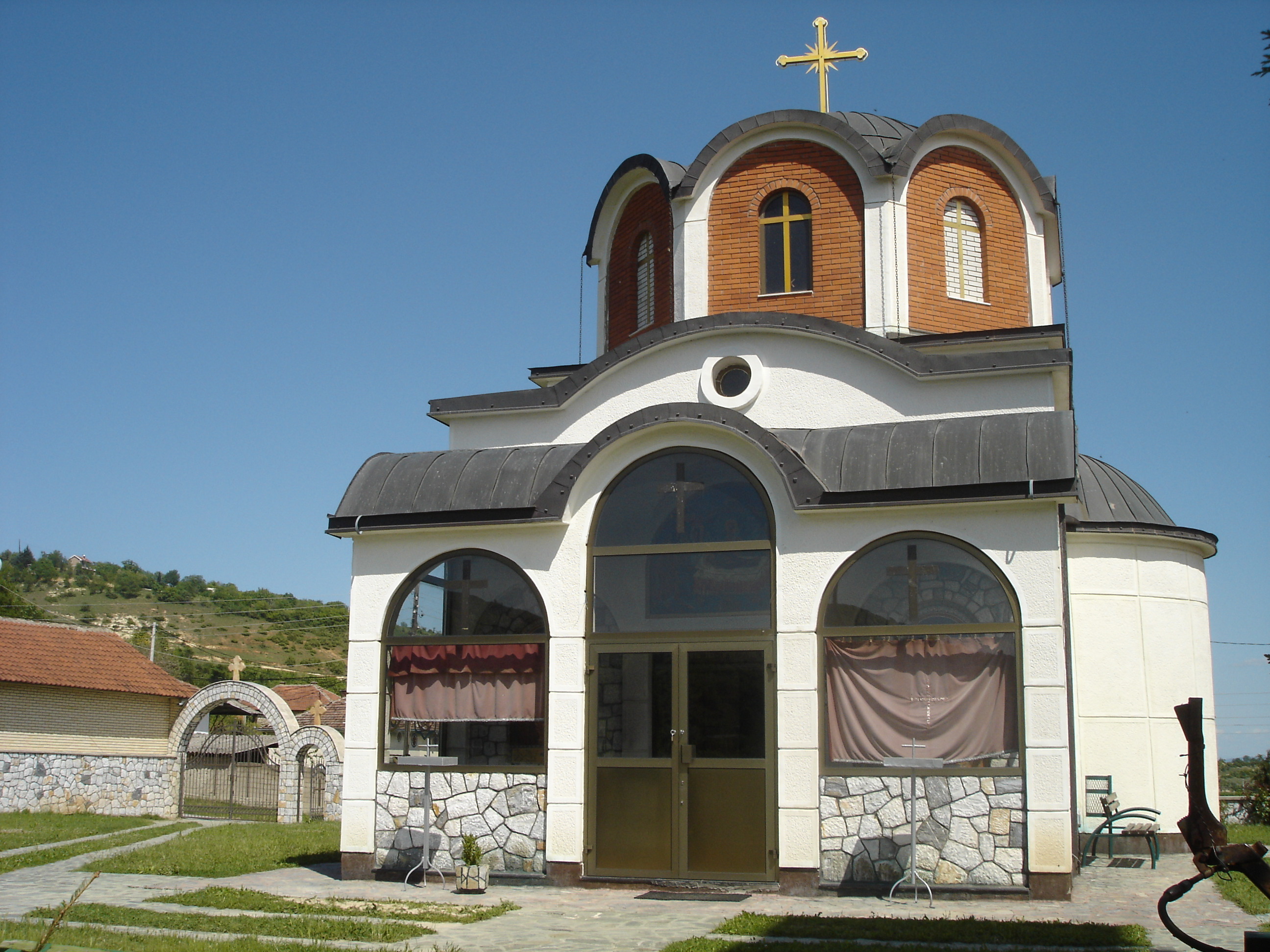 The church in village of Rakotinci, Macedonia